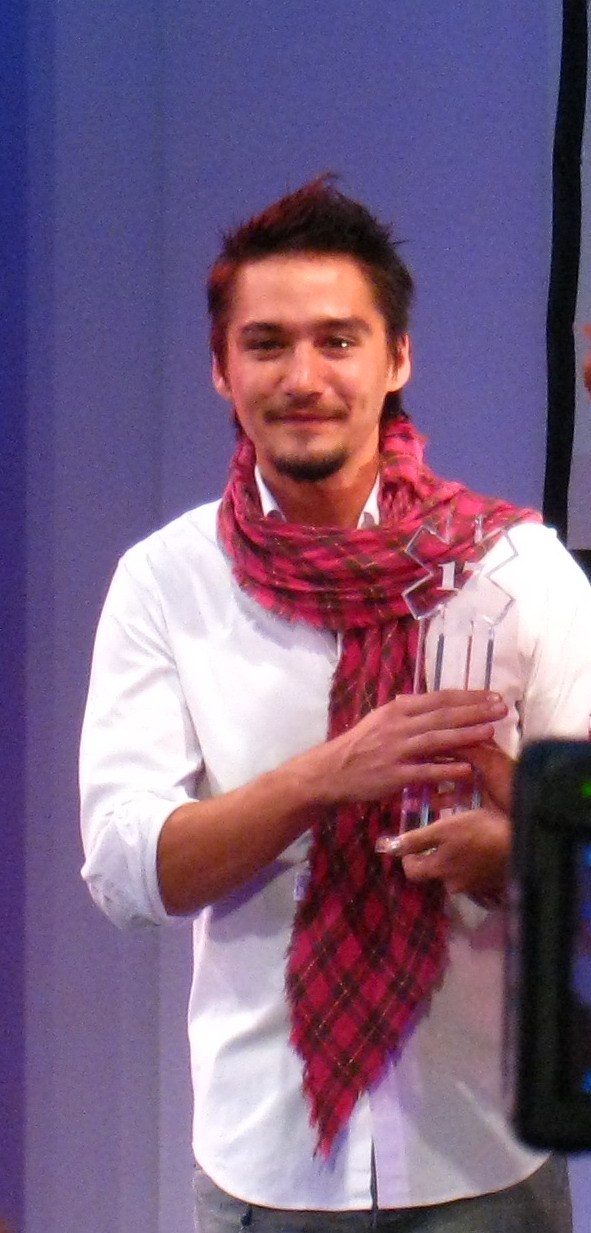 Anada everingham at 6th anniversary of Seventeen Magazine